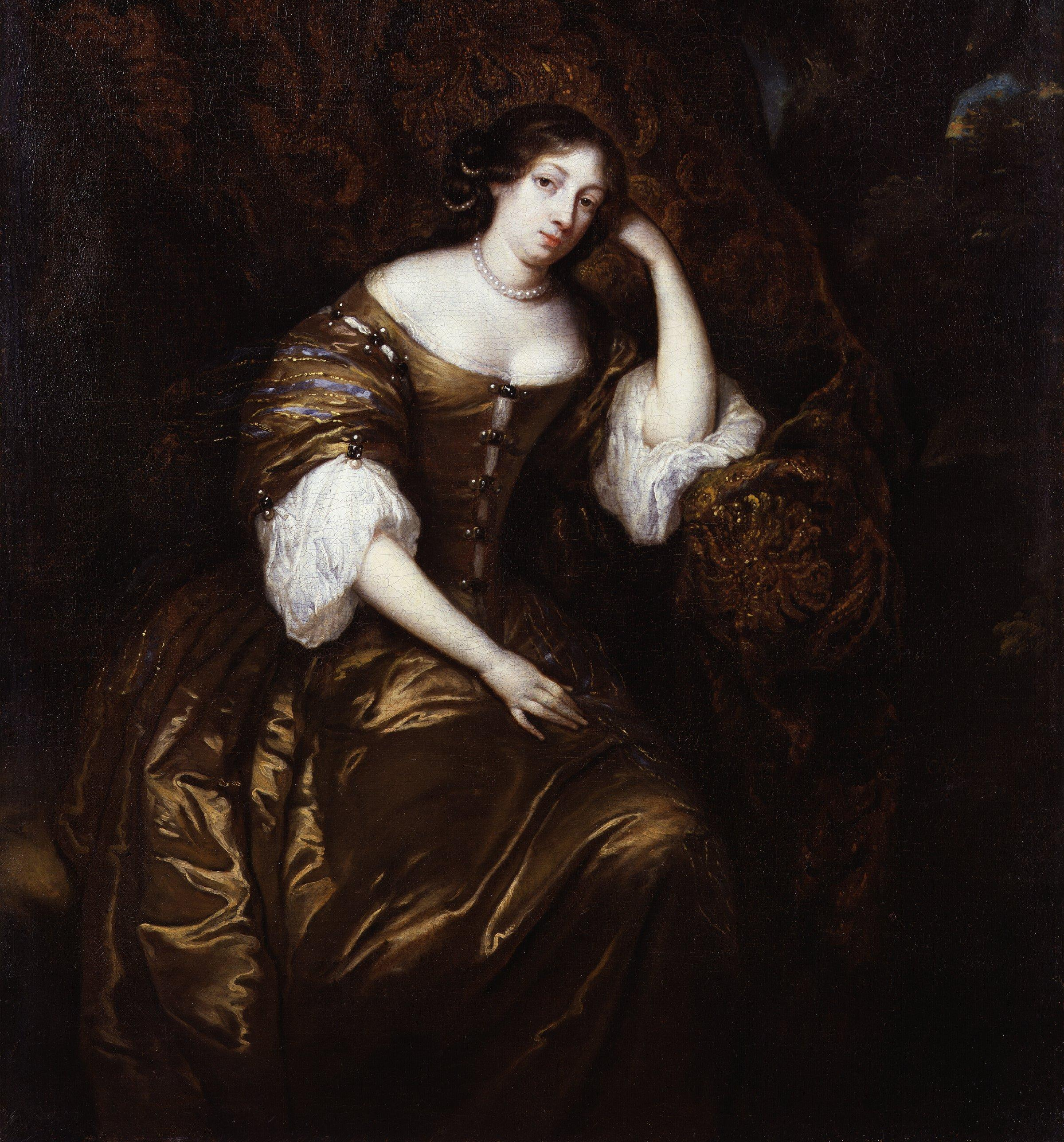 Dorothy, Lady Temple, by Gaspar Netscher (died 1684), 1671. All images in this batch have been confirmed as author died before 1939 according to the official death date listed by the NPG.